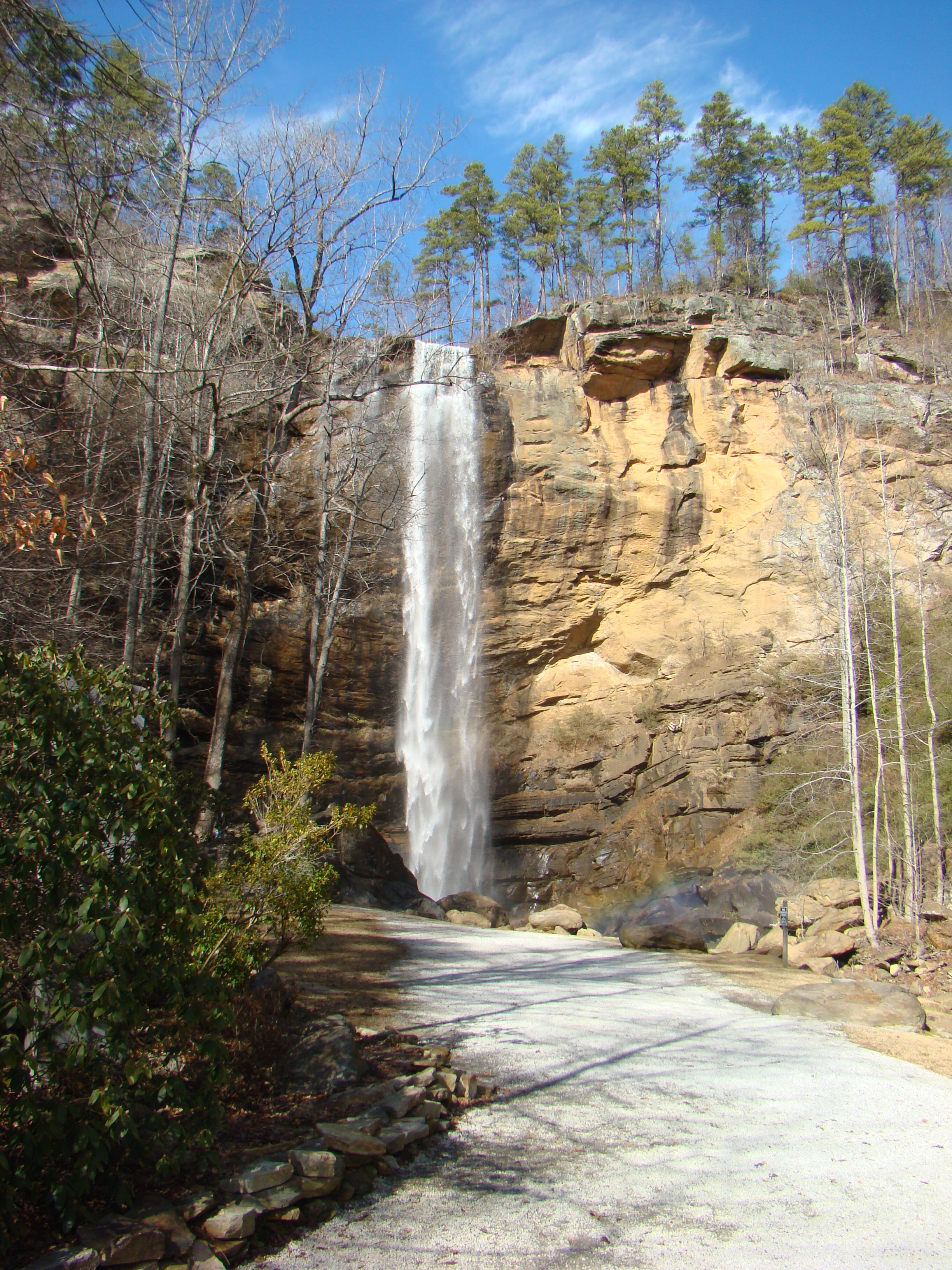 View of Toccoa Falls located in Toccoa, Georgia on the campus of Toccoa Falls College.